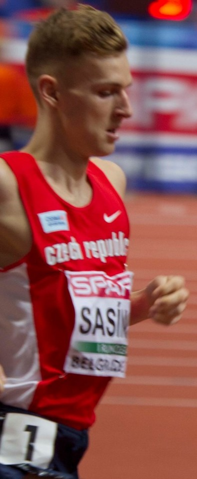 180 finale 1500m sasinek lancashire